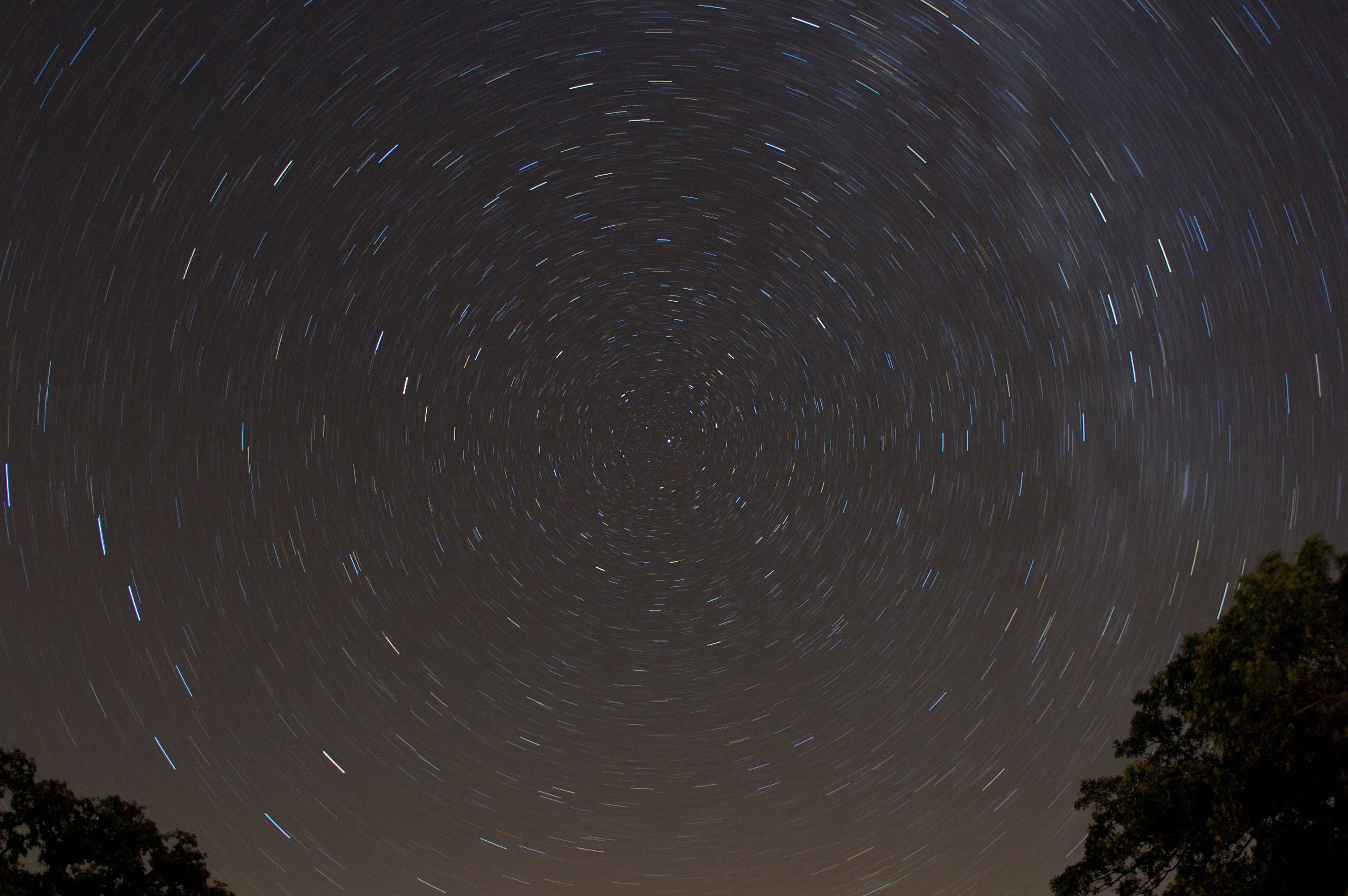 Circumpolar stars as seen from (+45° 39' 39.88", -96° 48' 5.57") near Sisseton, SD. 15 minute exposure, f/2.8, ISO 100, 15mm. Big Dipper is in lower left.